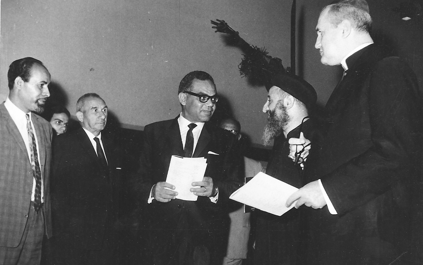 Bishop Samuel (second from right) with Pahor Labib (third from left)